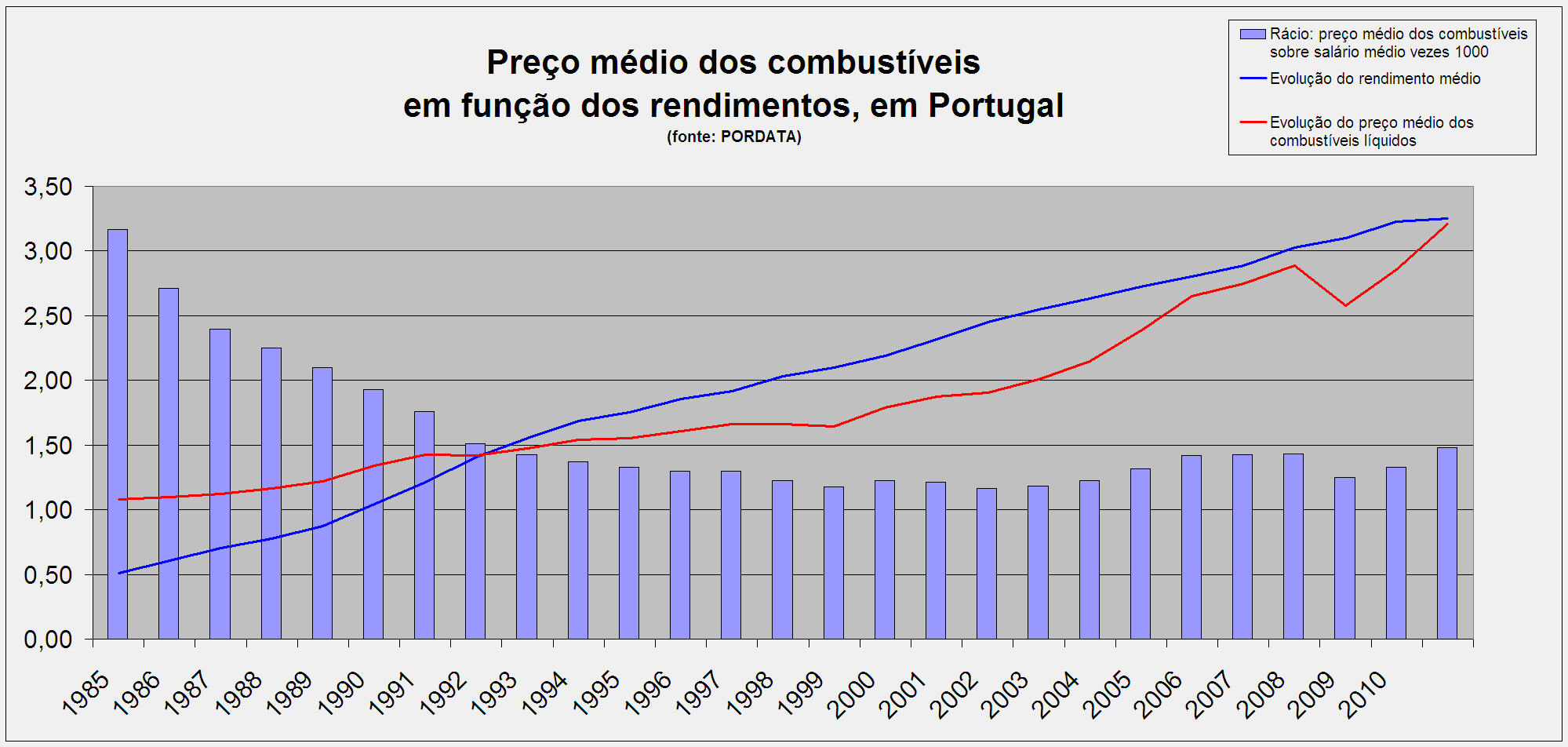 Average ratio fuel_prices/private_income in Portugal